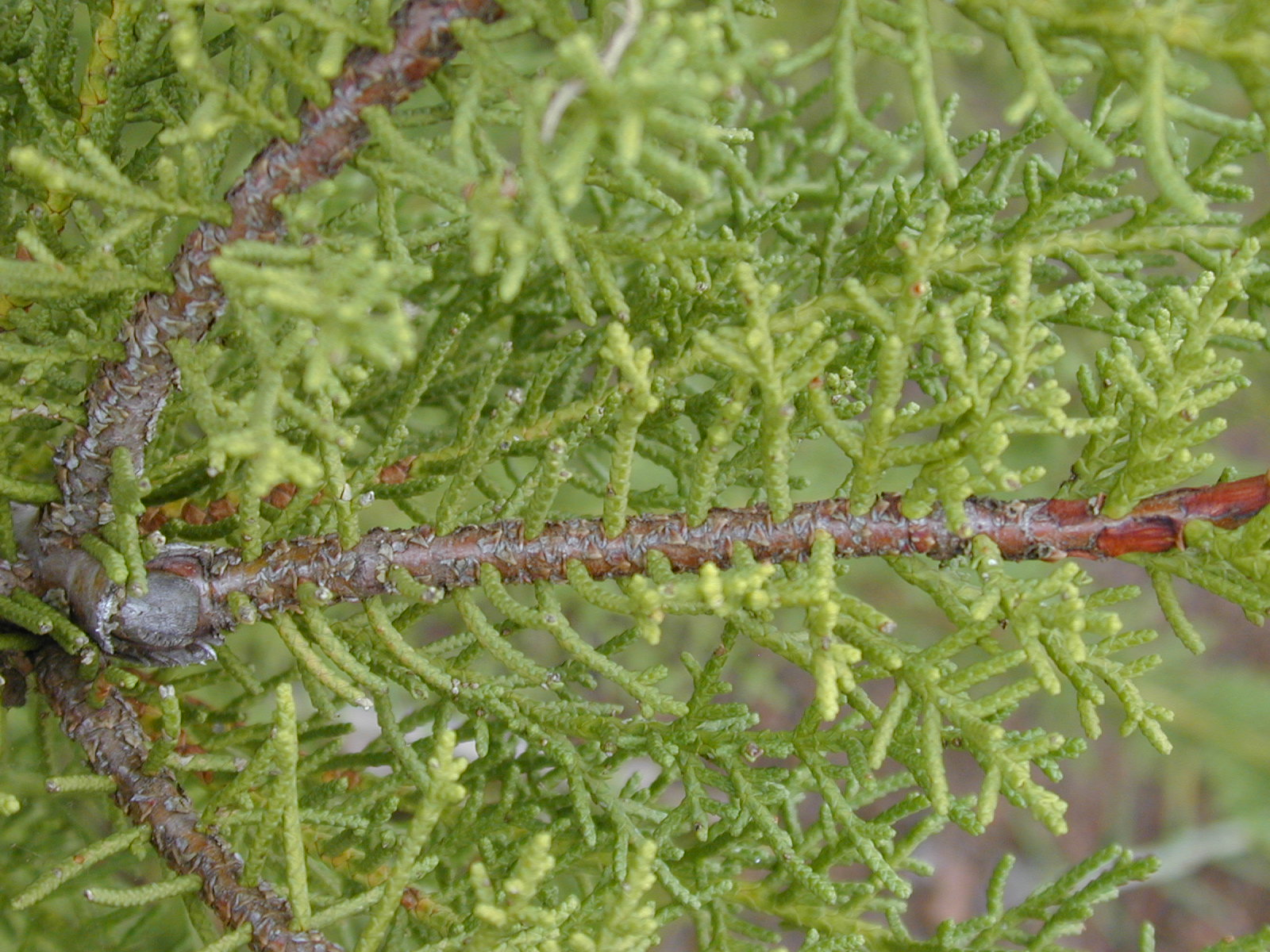 Cupressus macrocarpa (branch). Location: Maui, Polipoli